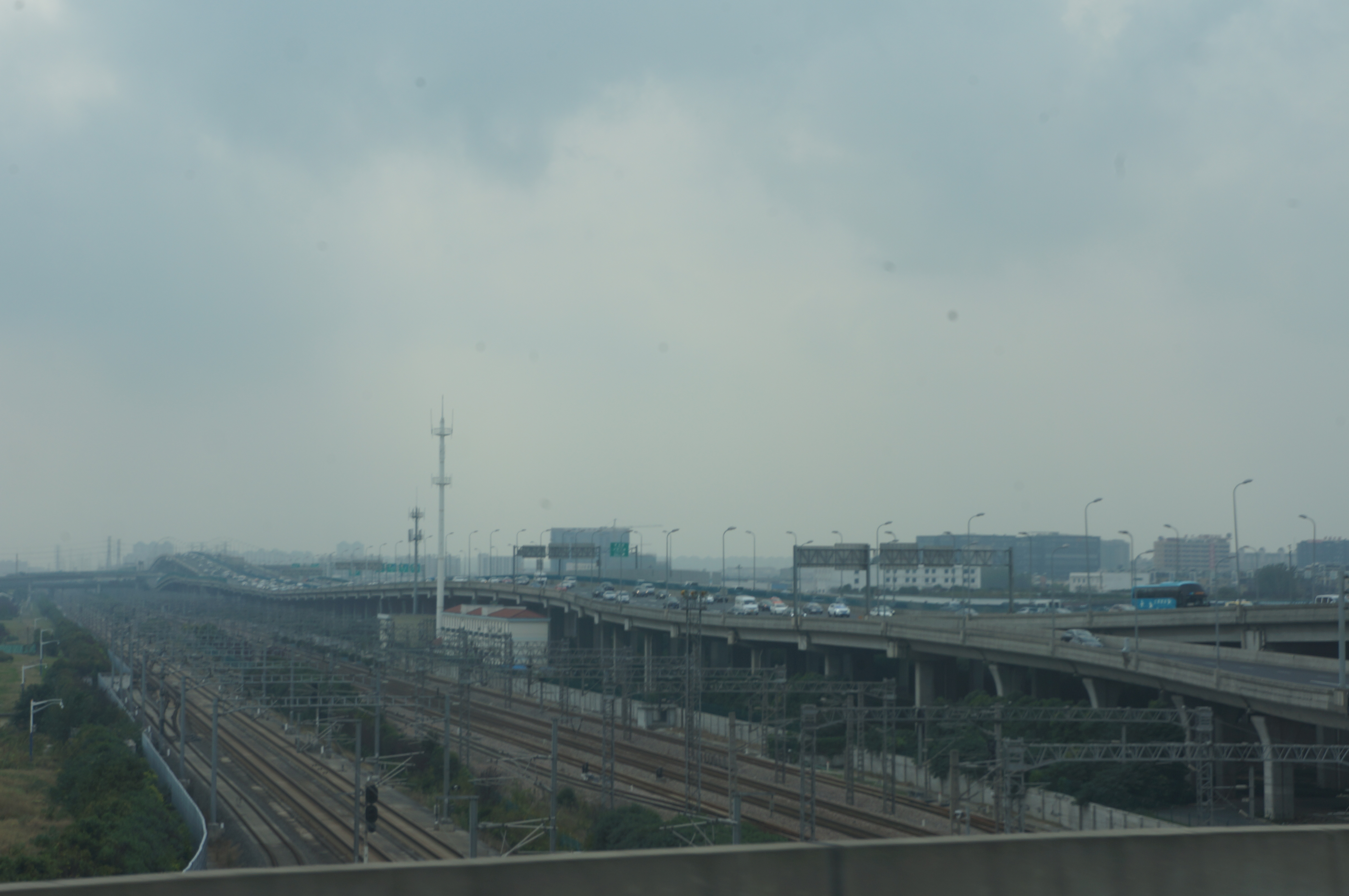 201611 Qibao Railway Station, three tracks on the left are Shanghai–Hangzhou HSR and special connector to SHA Airport